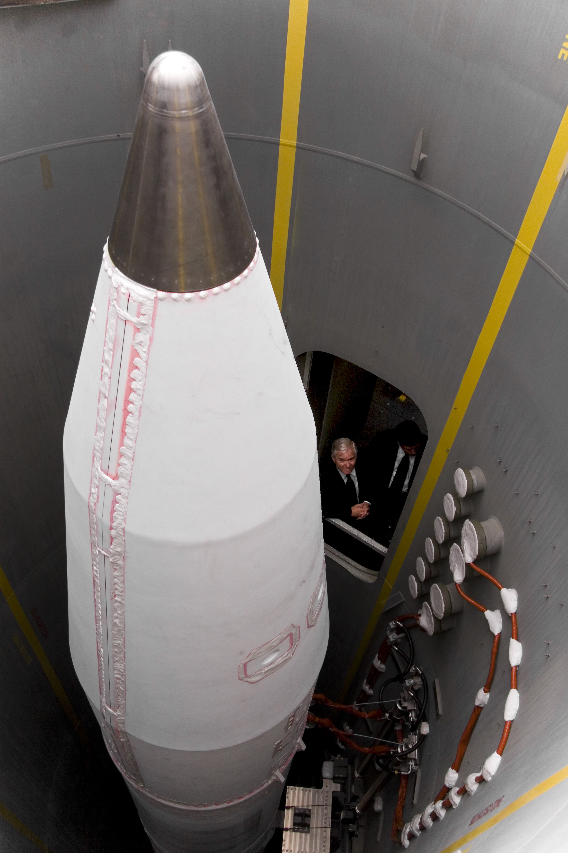 Defense Secretary Robert Gates peers out of a Silo Interface Fault to view an operational ground-based interceptor during a visit to the Missile Defense Complex on Fort Greely, Alaska. With Sen. Mark Begich (D-Alaska), Secretary Gates saw the nation's operational arm of its strategic missile defense capability and the Soldiers of the 49th Missile Defense Battalion (Ground-based Midcourse Defense) who are charged with defending the nation during a visit June 1.